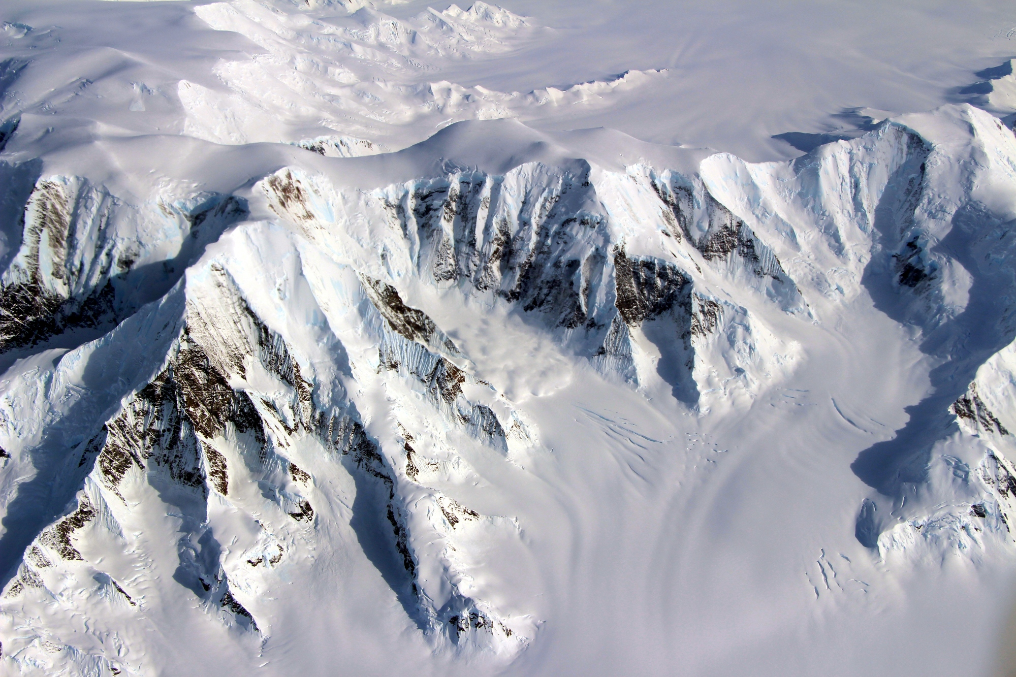 Mountains of Alexander Island. The curious feature near the floor of the valley at center may be a small patch of fog, or it may be an avalanche in progress. Photo taken during Operation IceBridge's "Foundation - Support Force 34" mission on Oct. 15, 2016. (NASA/John Sonntag)